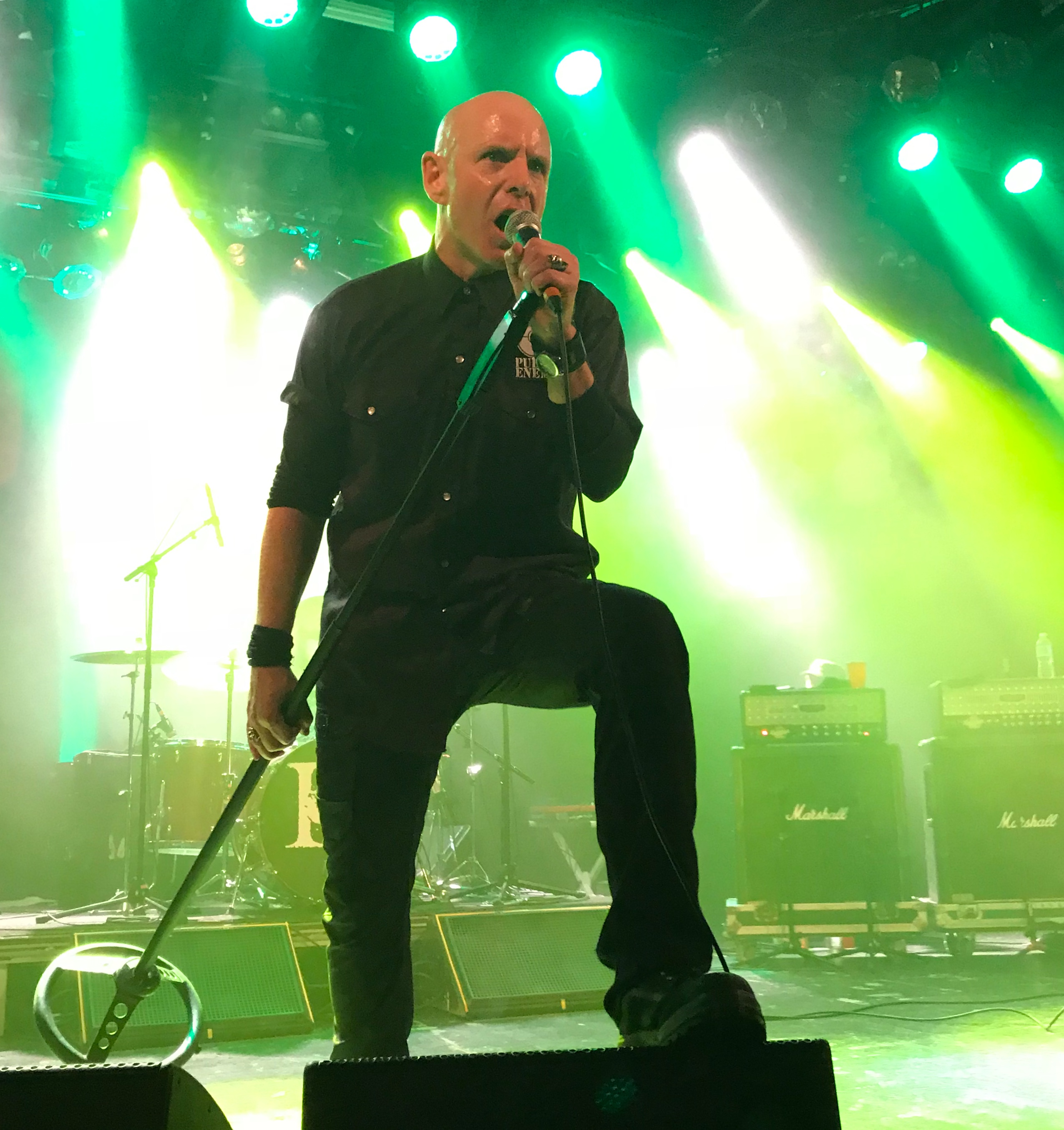 Hugh Dillon taken at The Commodore, Vancouver 11/11/2017